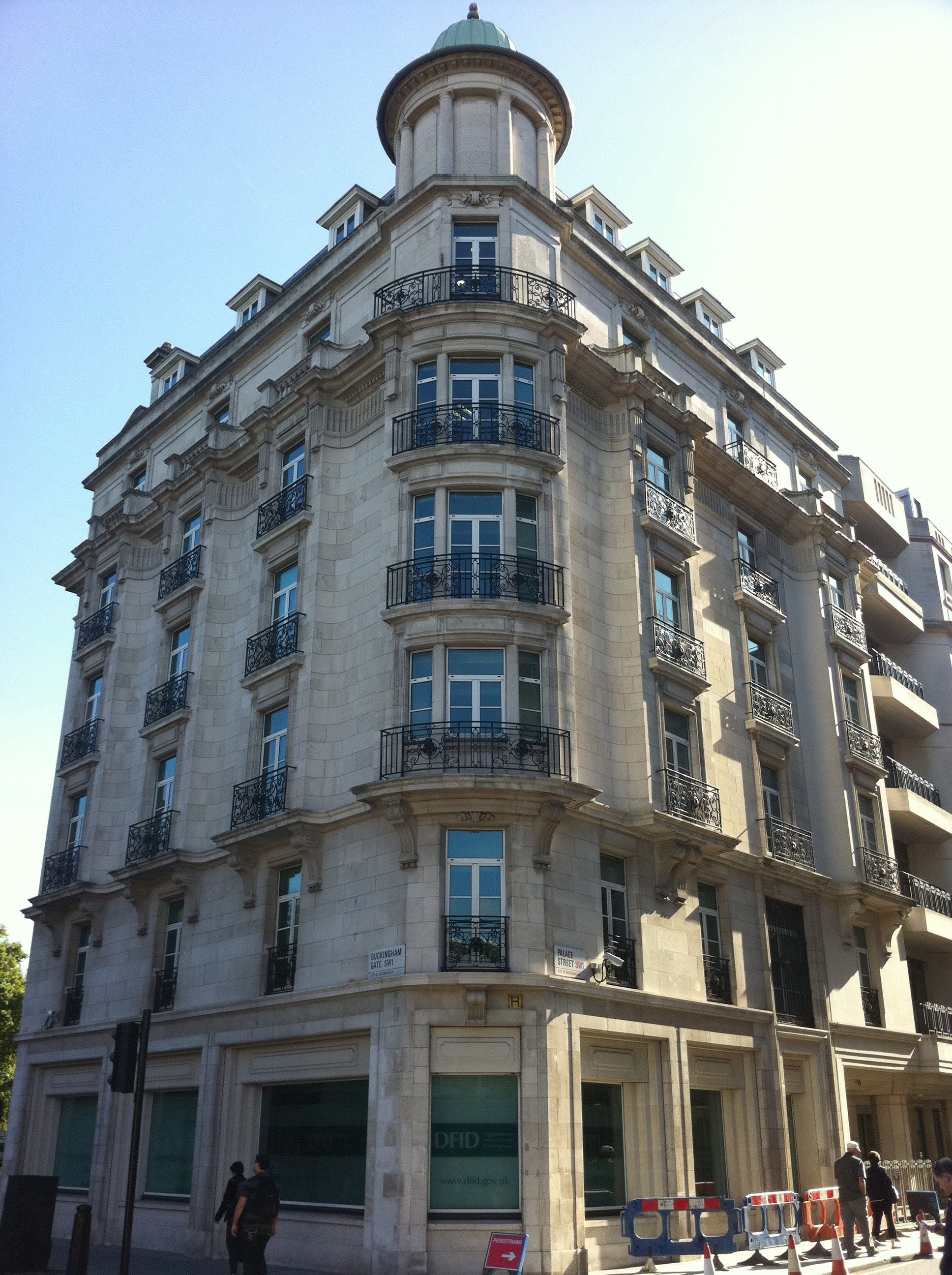 Headquarters of the Department for International Development in London. This photograph is Crown Copyright. It is posted under a Creative Commons Attribution license and the Open Government License.